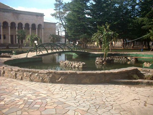 Lanchkhuti